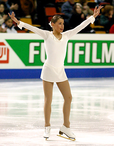 Cynthia Phaneuf competes her short program at the 2004 Four Continents Championships in Hamilton, Ontario, Canada.